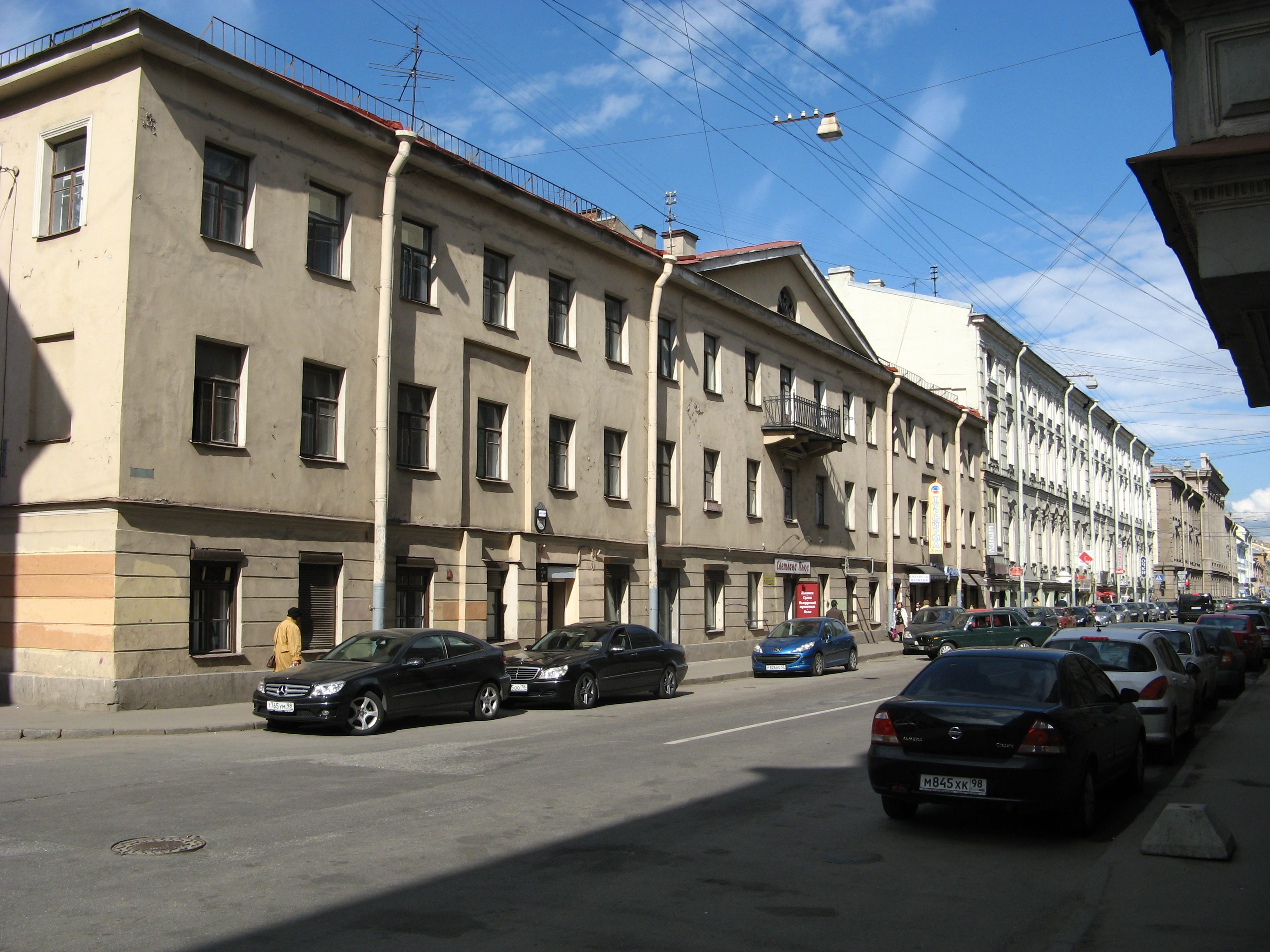 Kazanskaj street, 31 (Saint-Petersburg)